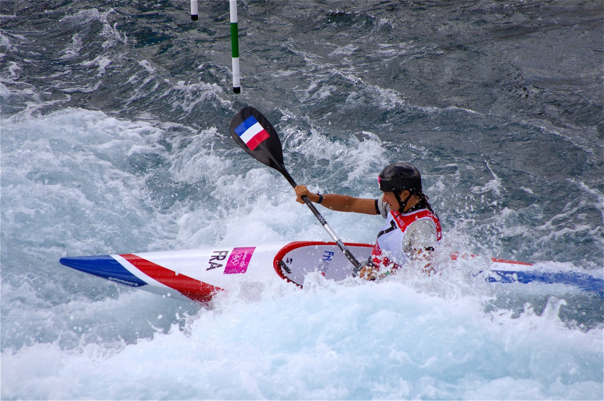 Canoeing at the 2012 Summer Olympics – Women's slalom K-1 Émilie Fer (FRA)